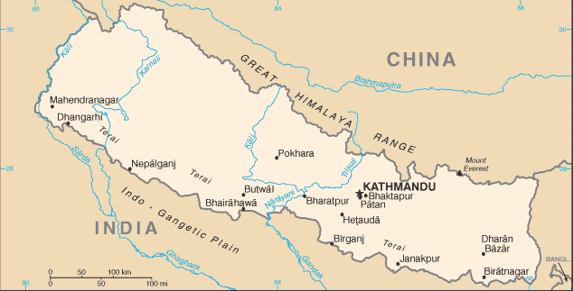 Map of Nepal